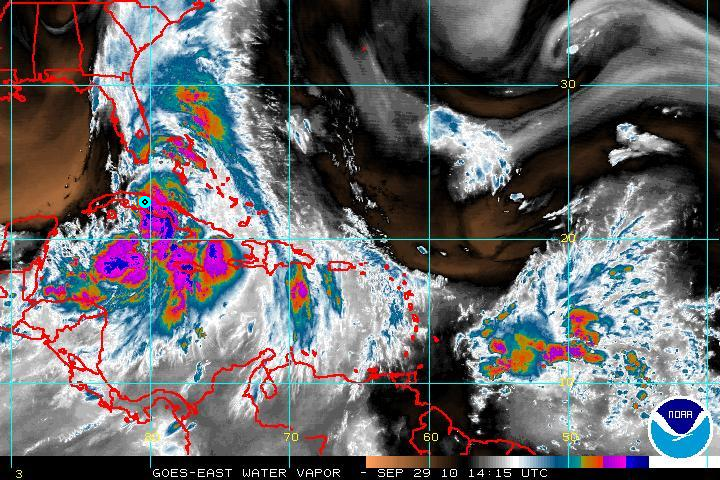 A Caribbean water vapor loop frame image displaying Tropical Storm Nicole over Cuba, captured on September 29 at 14:15 UTC and modified to show the approximate center of the storm. Track coordinates